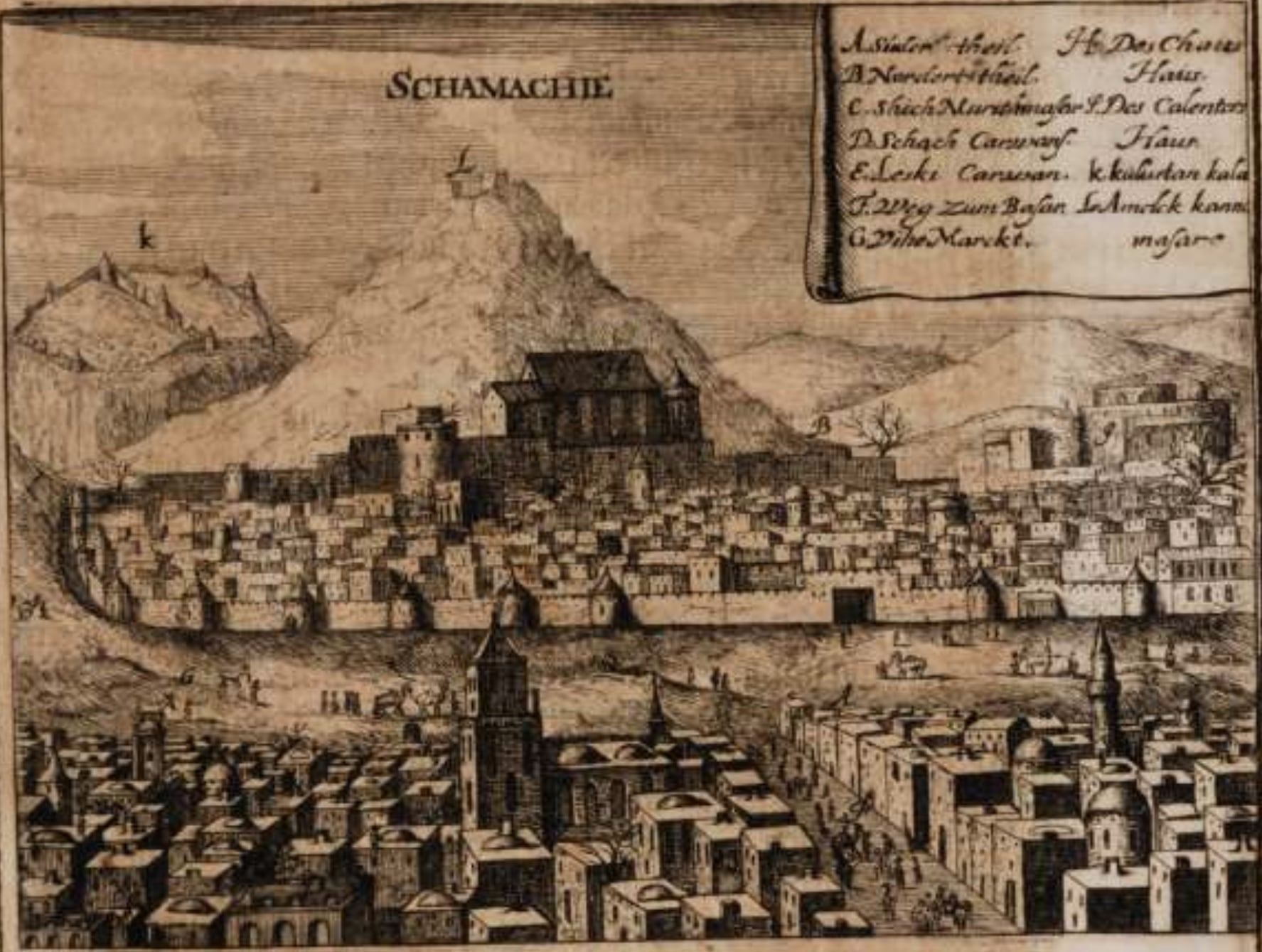 Shemakha (in Azerbaijan)